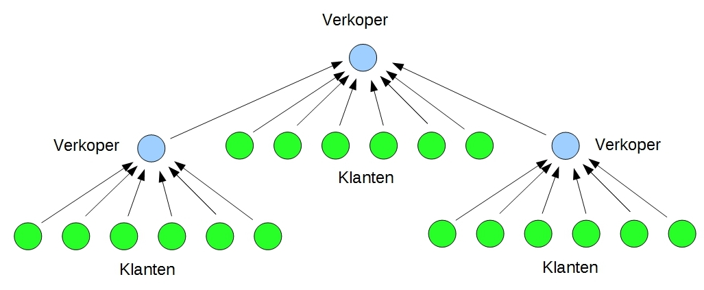 based on File:LevedyktigMLM2.png. Translated to Dutch.